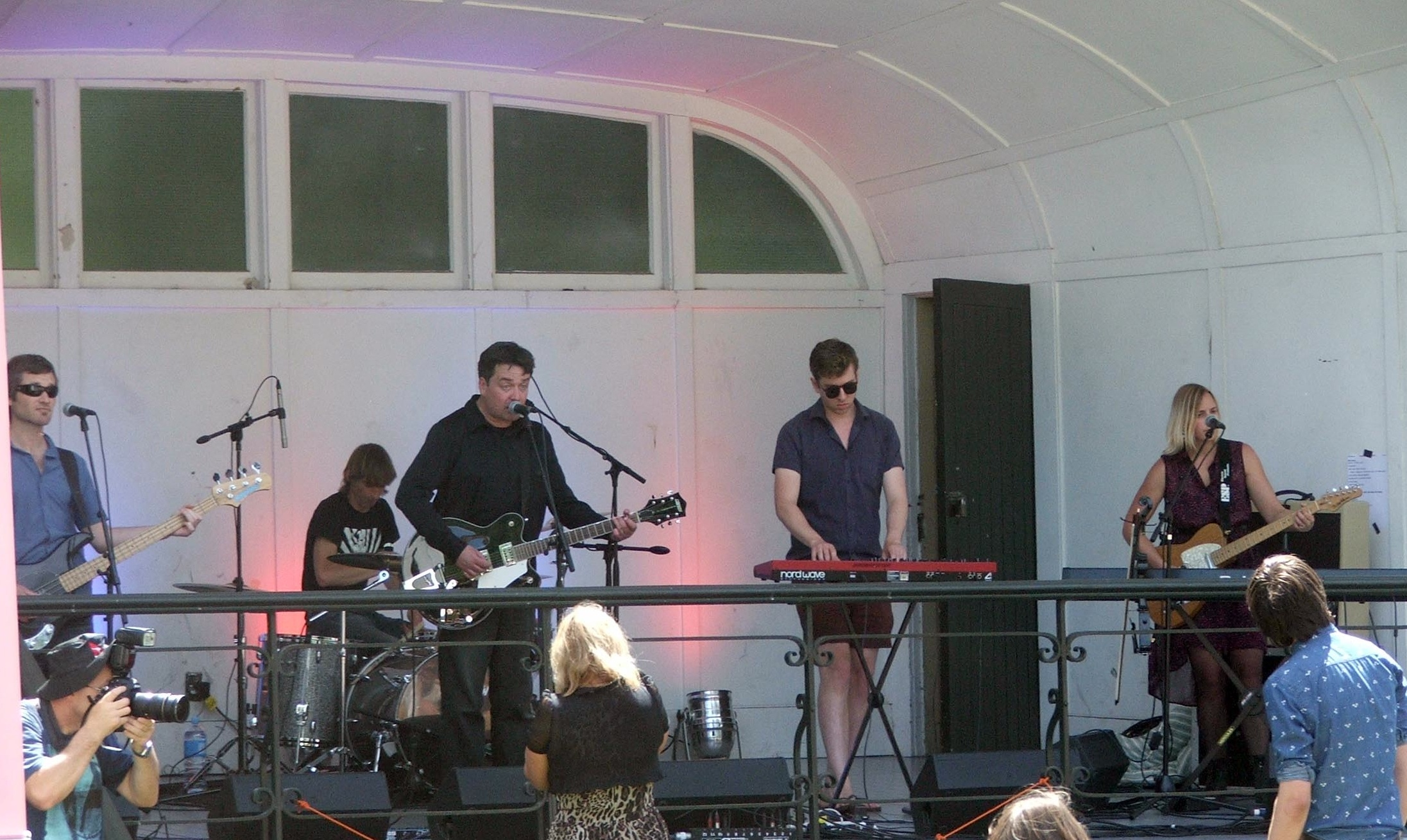 The Chills at a free open air concert in Dunedin Botanic Gardens, New Zealand, January 2013. Photograph by James Dignan (User:Grutness)